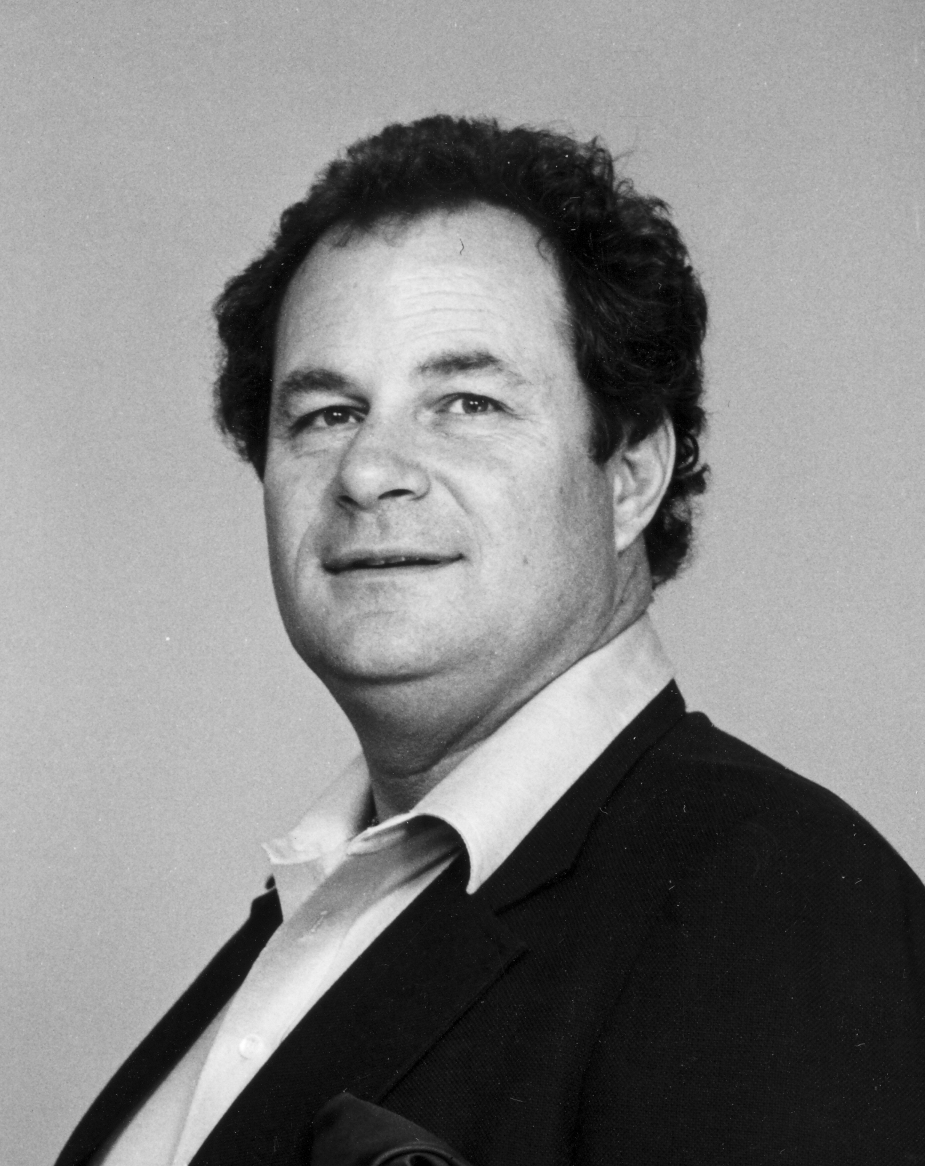 Michael Wayne, circa 1981. There are no known copyright restrictions on this image. All future uses of this photo should include the courtesy line, "Photo courtesy Orange County Archives." Comments are welcome after reading our Comment Policy .